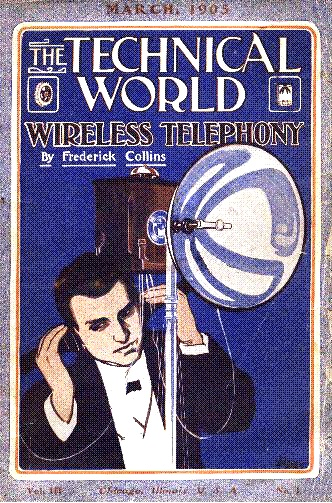 Drawing of Ernst Ruhmer listening at one station to his "photo-electric" optical wireless telephone system.